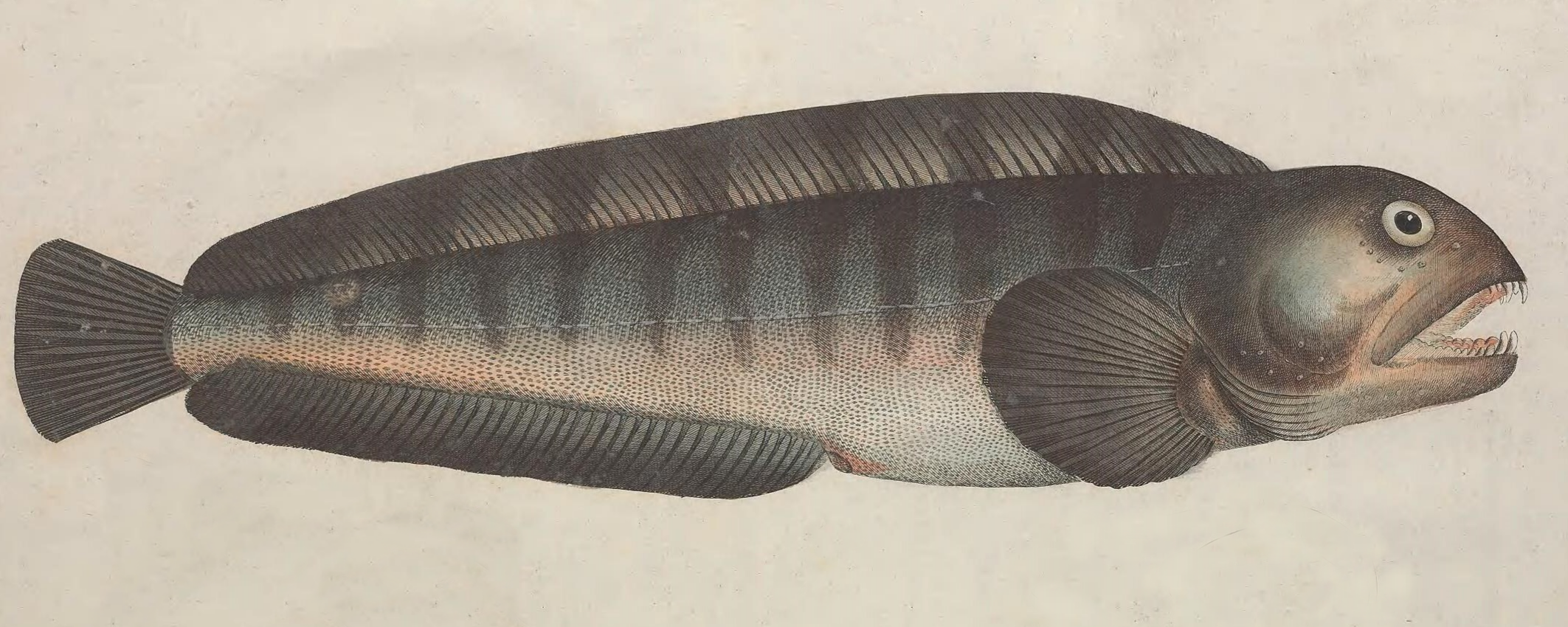 Anarhichas lupus